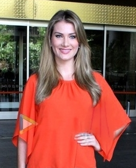 Mireia Lalaguna snapped at the international airport, Mumbai.